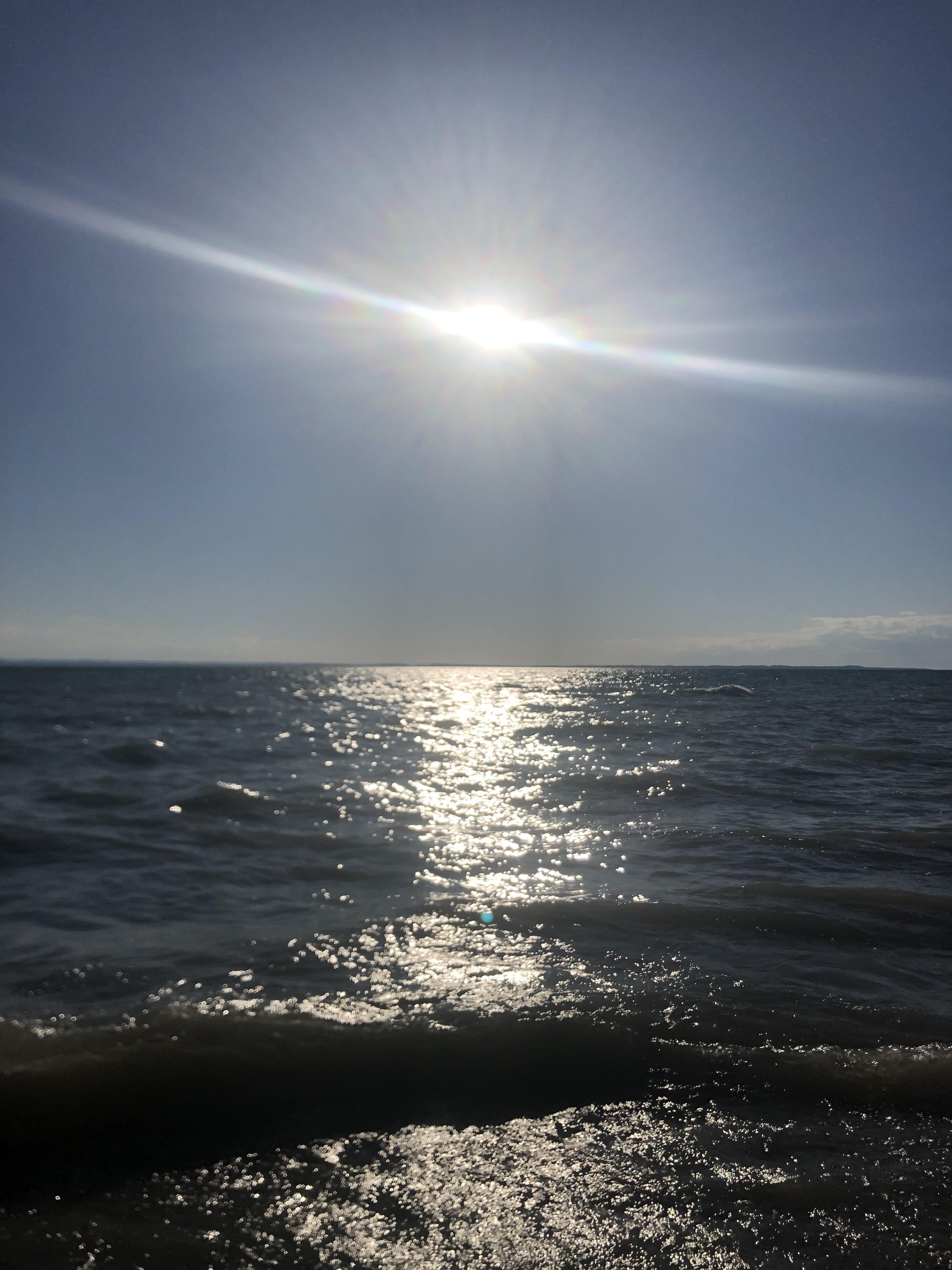 Grand Traverse Bay from Atwood, Michigan, viewing west toward Leelanau County